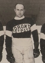 George Smith of the Toronto St. Pats